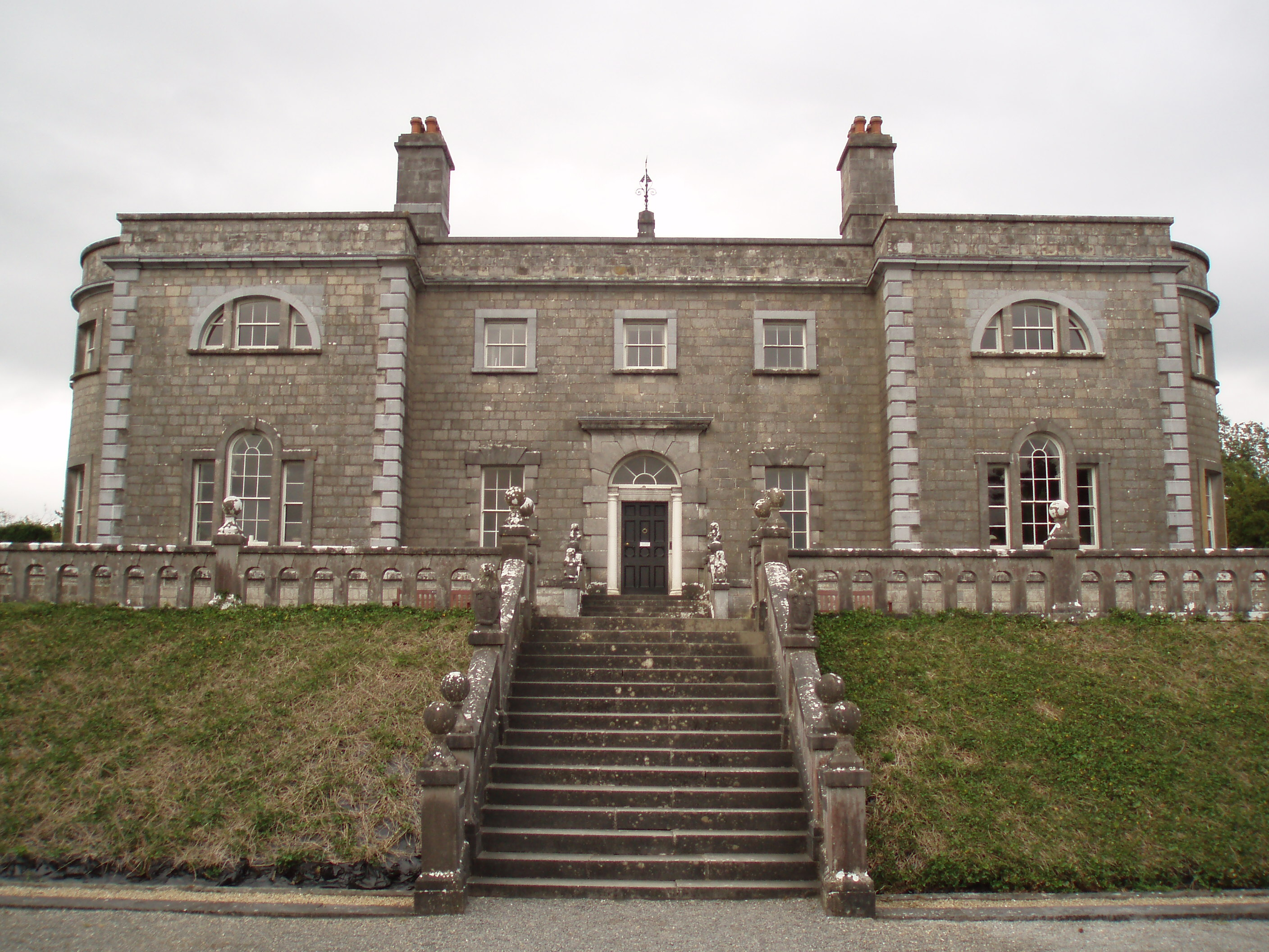 A view of Belvedere House near Mullingar in County Westmeath. A walk around the gardens is well worth the visit.